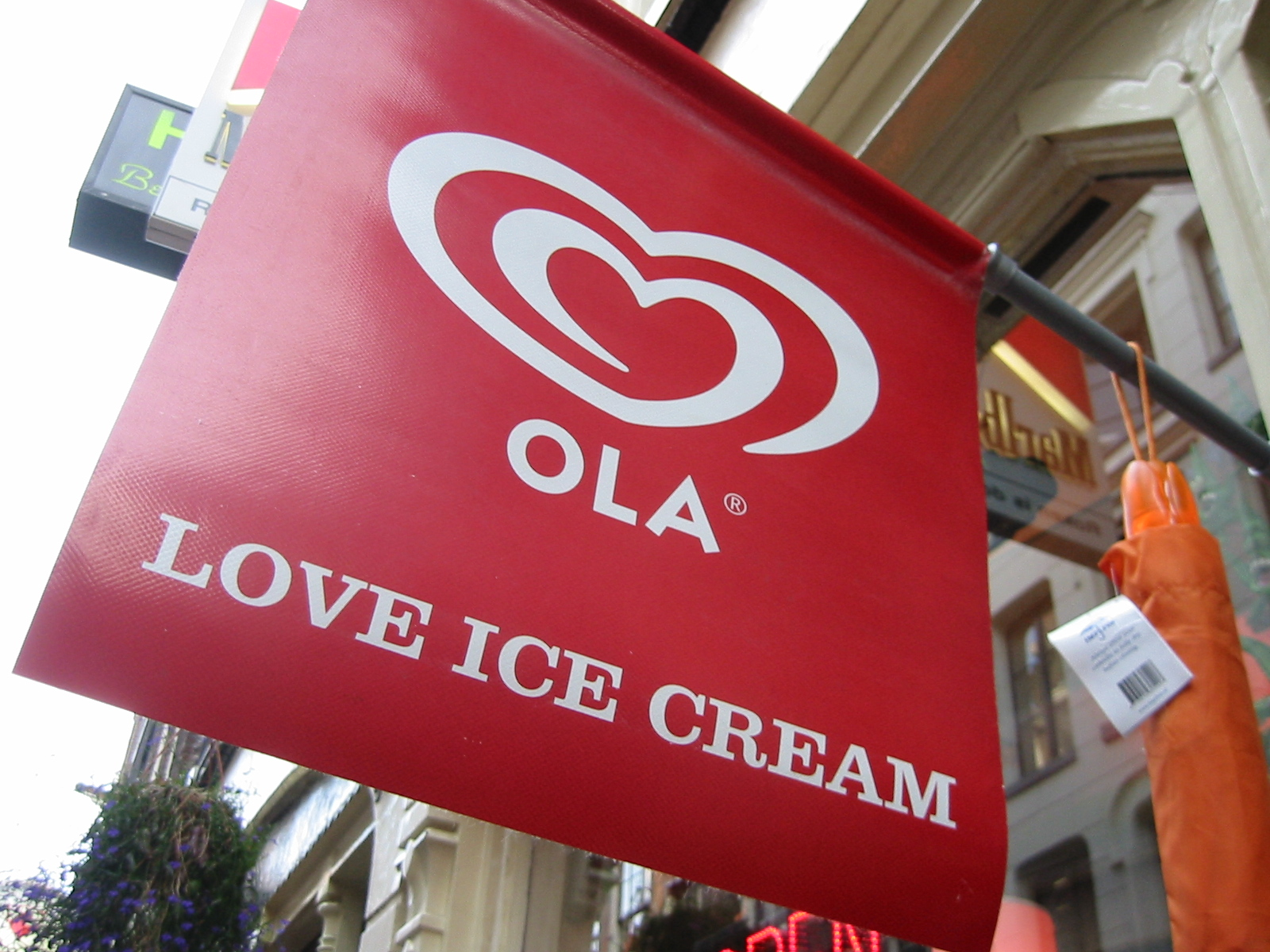 Flag of Ole, in the Amsterdam / Nedderlands